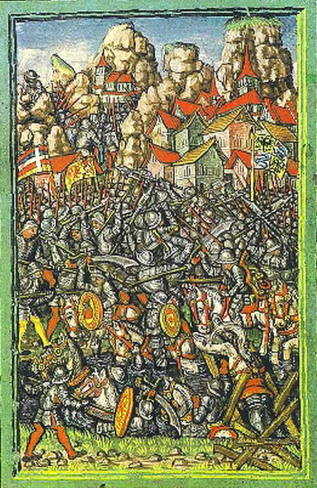 Diebold Schilling the Younger : Battle of Giornico (28th December 1478), Canton Ticino, Switzerland. Luzerner Schilling miniature.